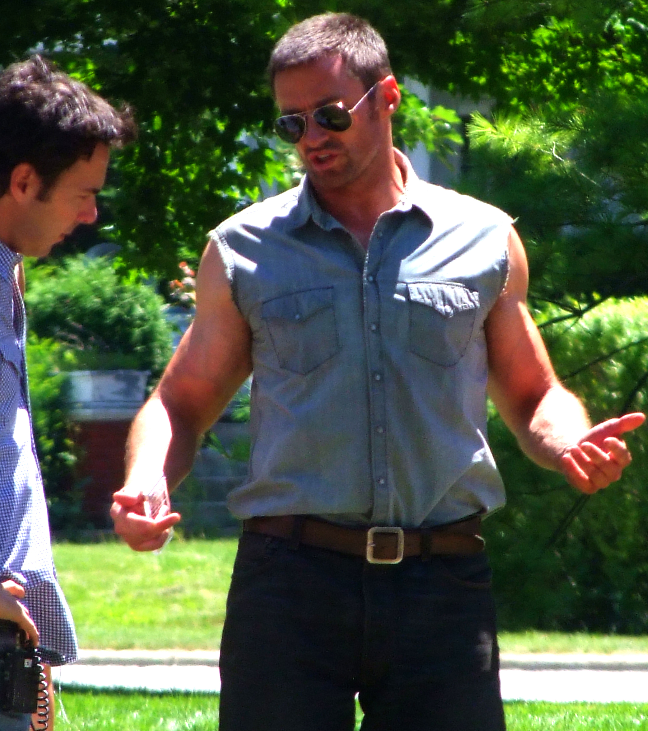 Shawn Levy and Hugh Jackman on the set of Real Steel in July 2010.